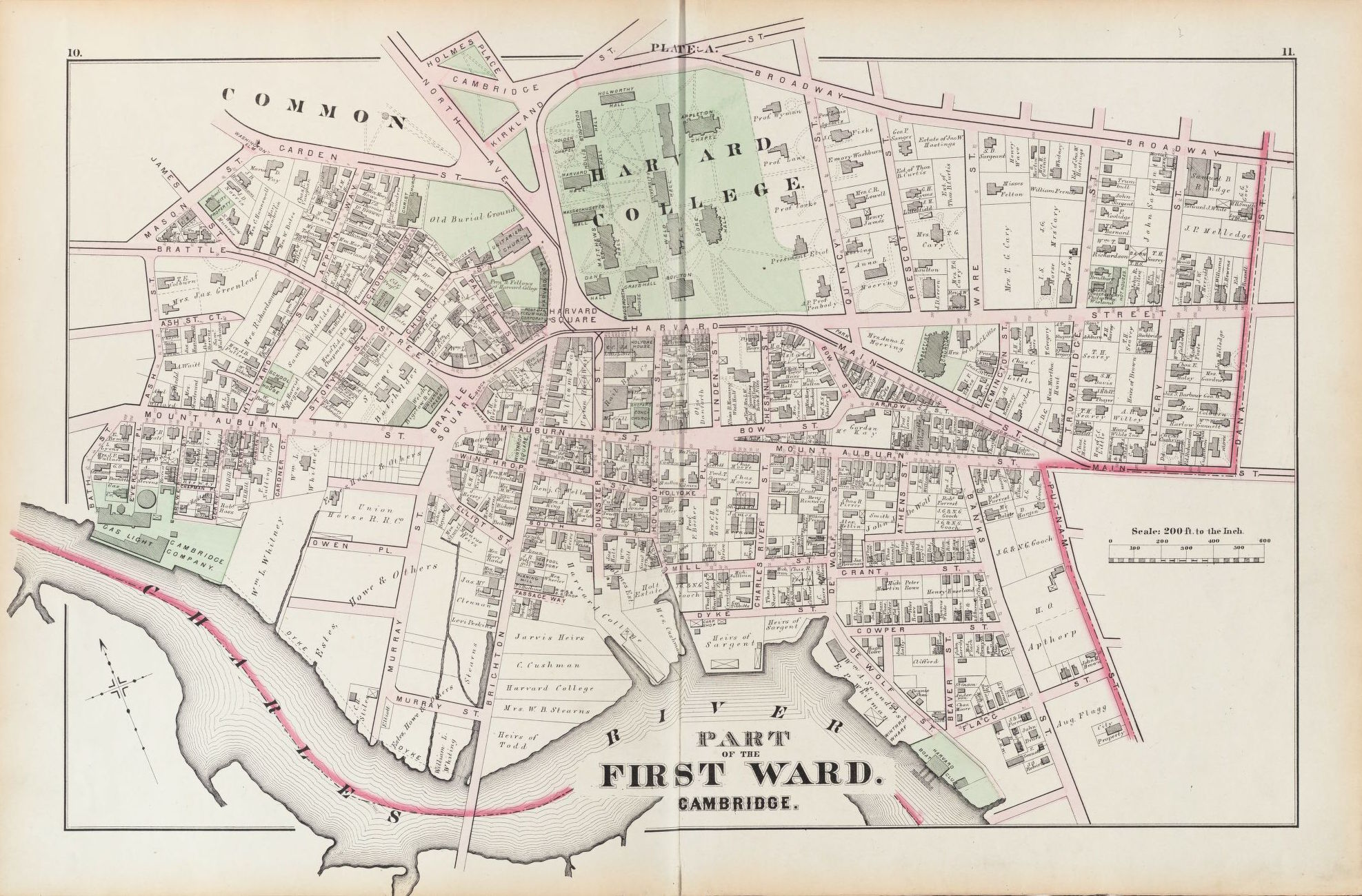 This is a map of Harvard Square and surrounding area to the Charles River in 1873. The original map is from an atlas of Cambridge published by Hopkins. Harvard College is not labelled as a university yet, though officially termed one by Massachusetts since 1780. North Ave., Harvard St., and Main St. have not been renamed as Massachusetts Avenue yet. The Charles River does not have a major roadway along its banks yet.